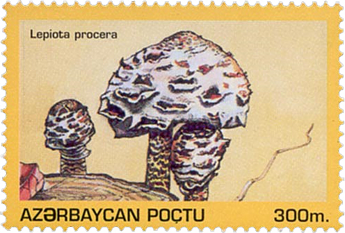 Stamp of Azerbaijan with parasol mushrooms